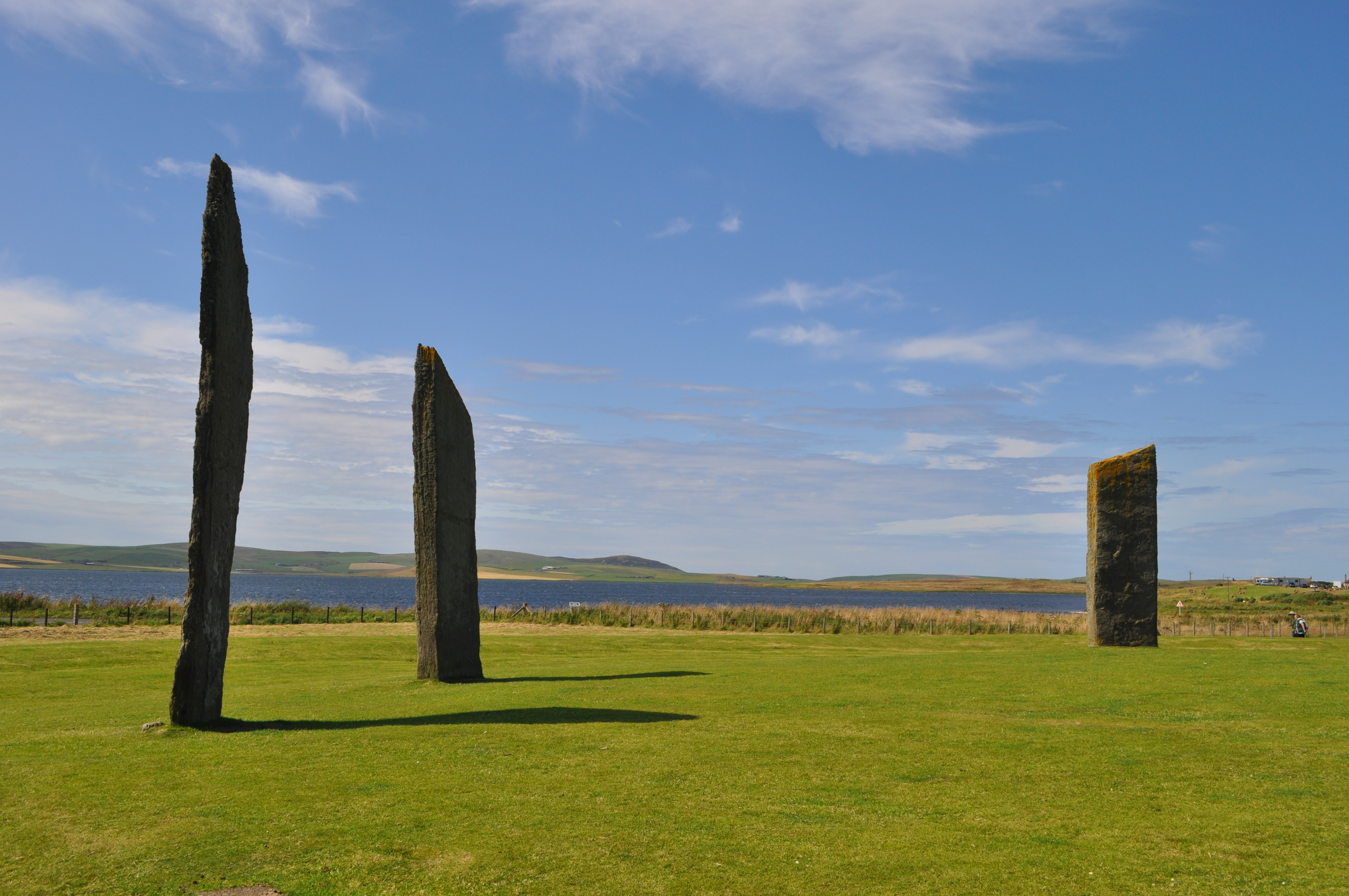 Standing Stones of Stenness, a neolithic stone circle on Orkney Mainland